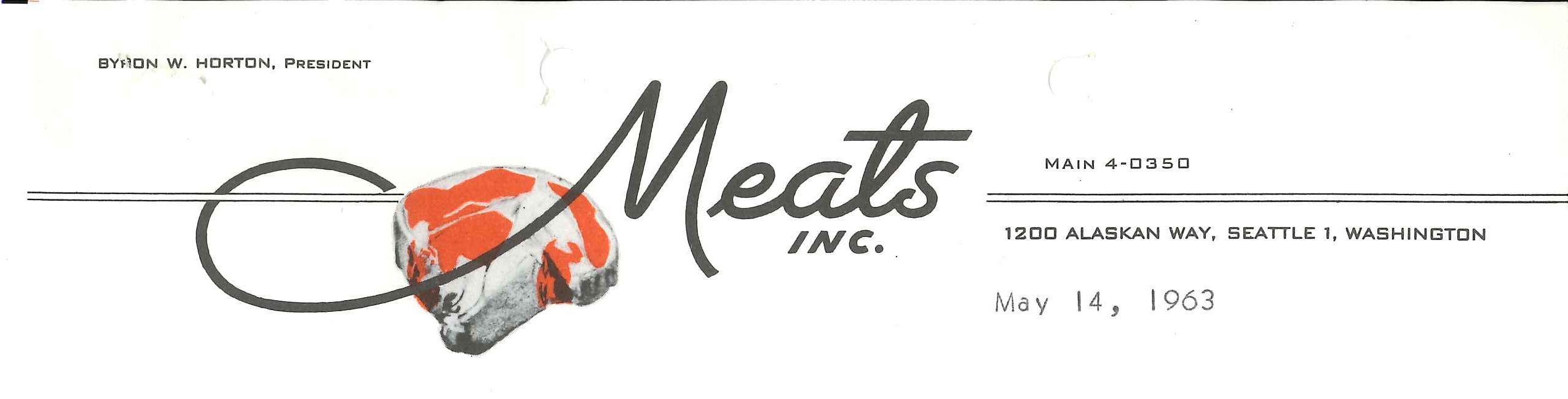 Meats Inc. letterhead, Seattle, Washington, U.S., 1963.